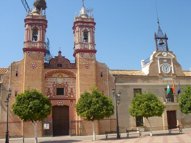 Plaza Real, Fuente Palmera, Cordoba, España